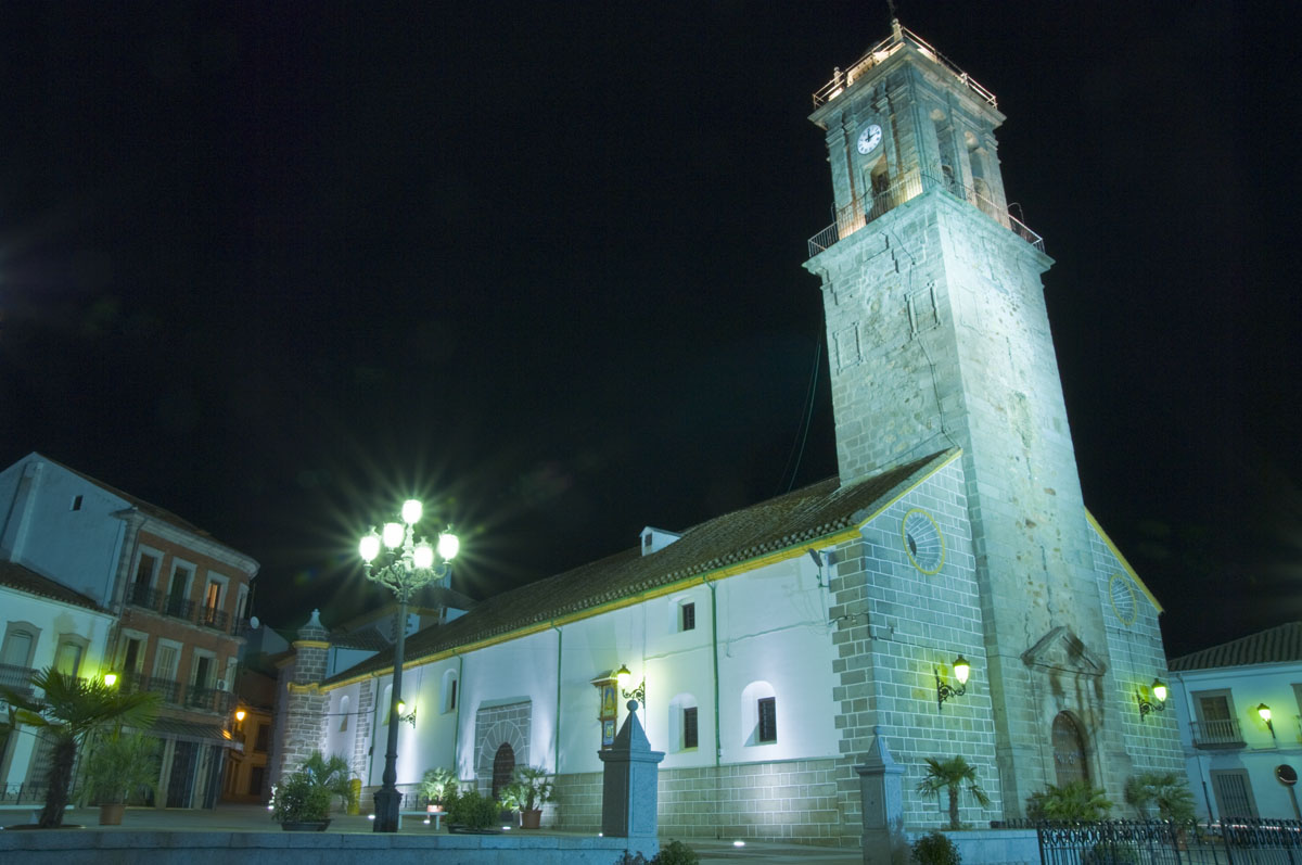 Iglesia de San Miguel